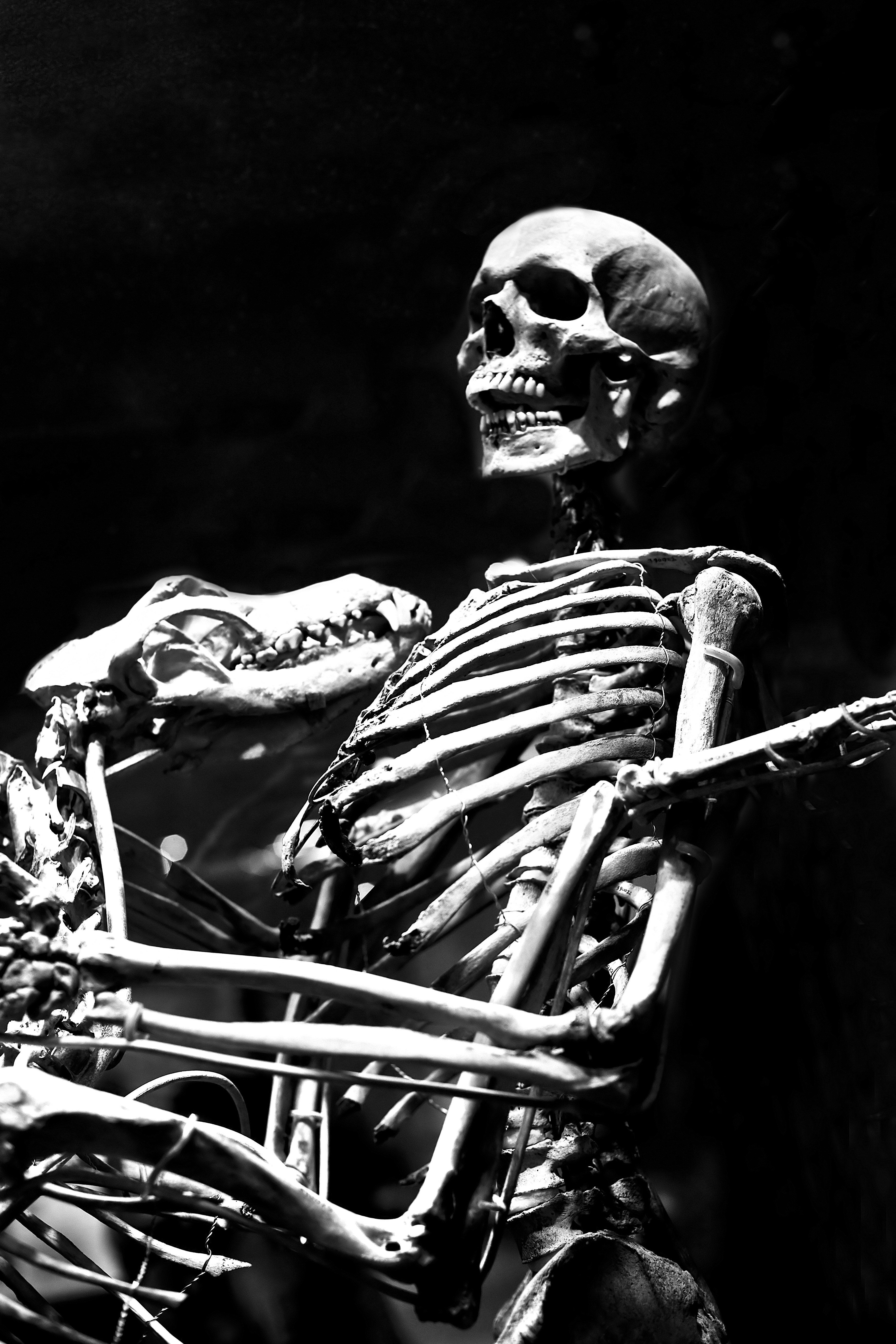 Skeleton of Grover Krantz & his Irish Wolfhound Clyde at the Smithsonian Natural History Museum in Washington D.C., U.S.A.